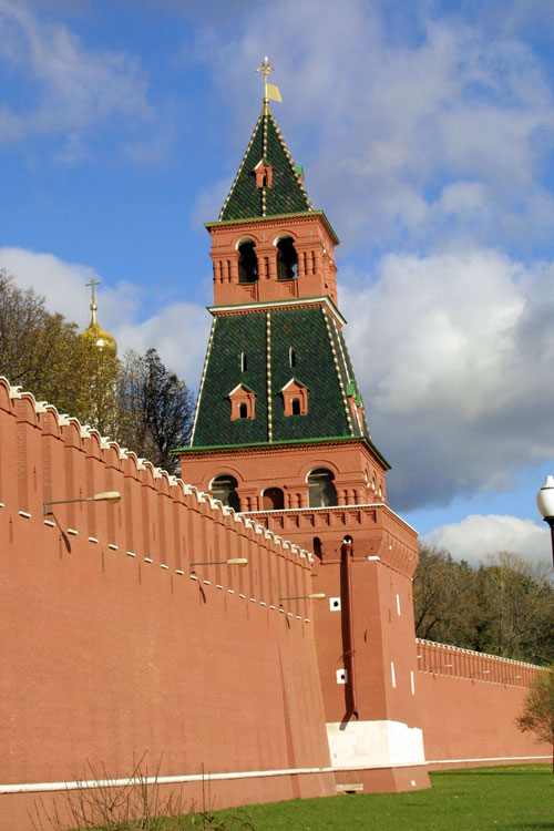 Moscow, the Kremlin. Blagoveshenskaya Tower.